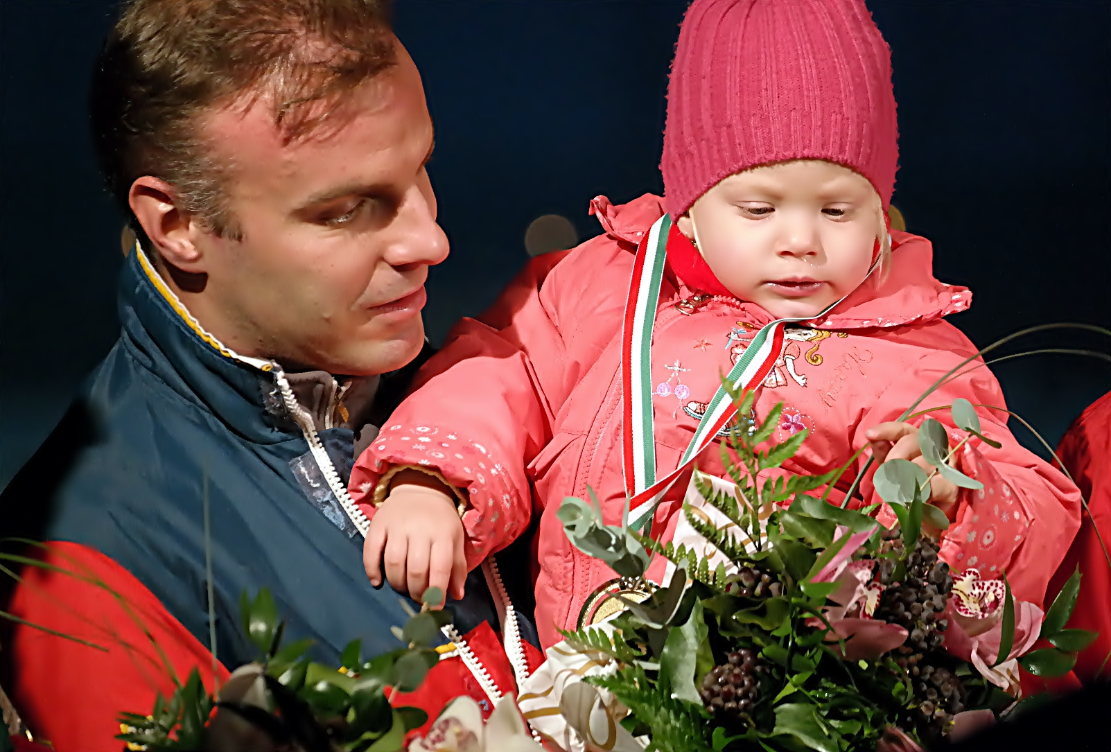 Levente Szuper with his daughter in Kincsem park